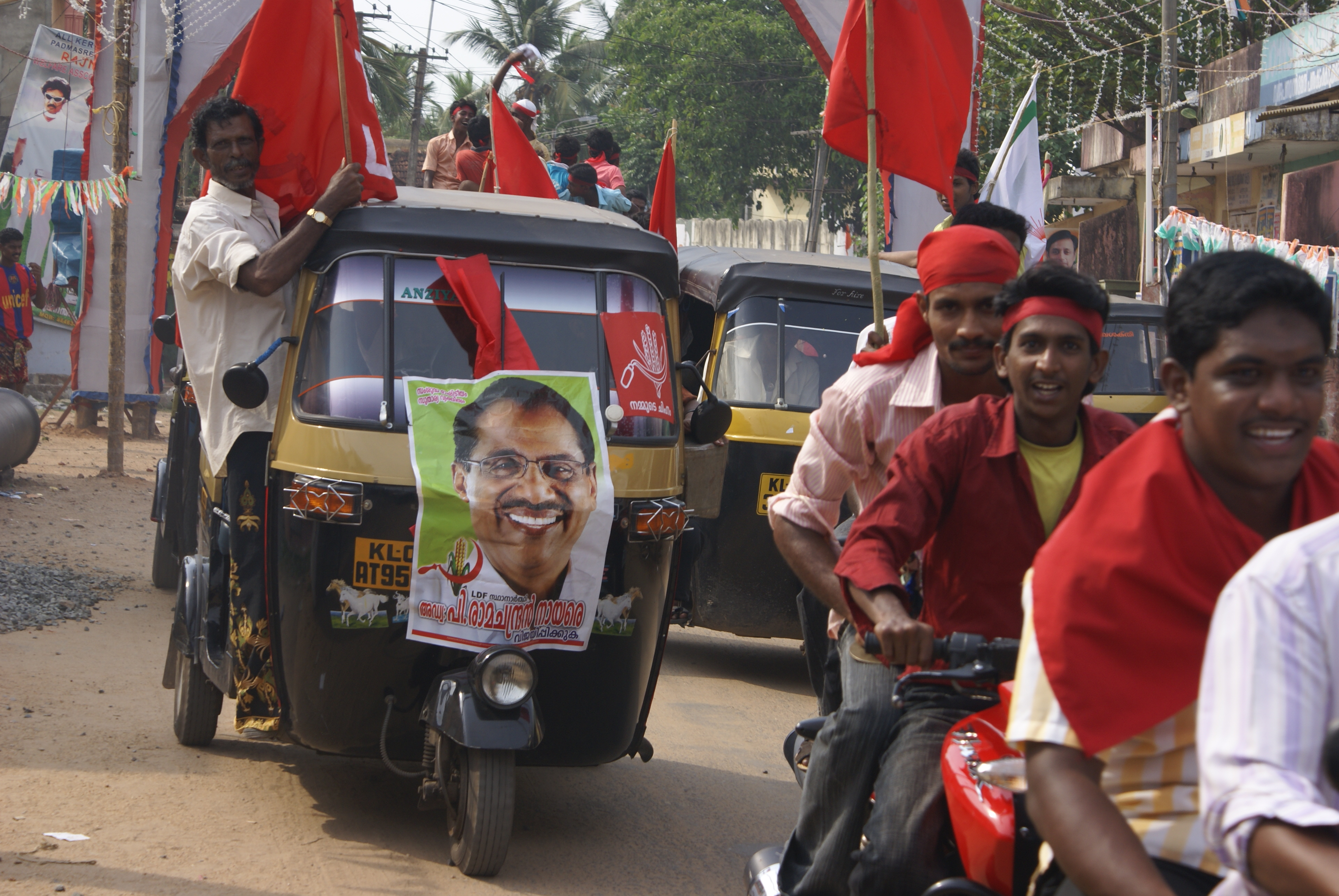 Supporters of Kerala's ruling Left Democratic Front make last campaign efforts before before the vote begins.